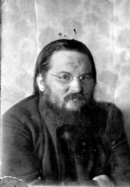 Alexey Alexeevich Ukhtomsky.